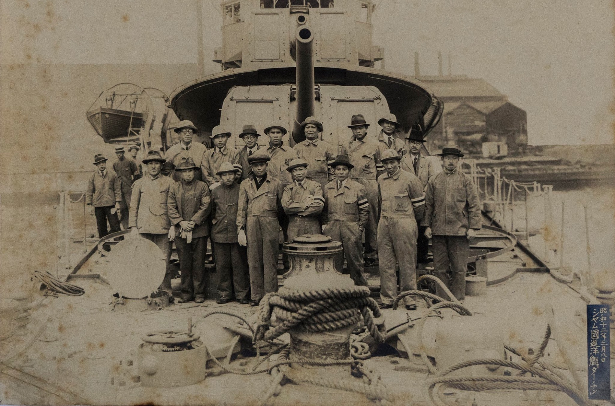 หลวงชาญจักรกิจ ชมะนันทน์ ณ อู่ต่อเรืออูรางา เมืองโยโกสุกะ